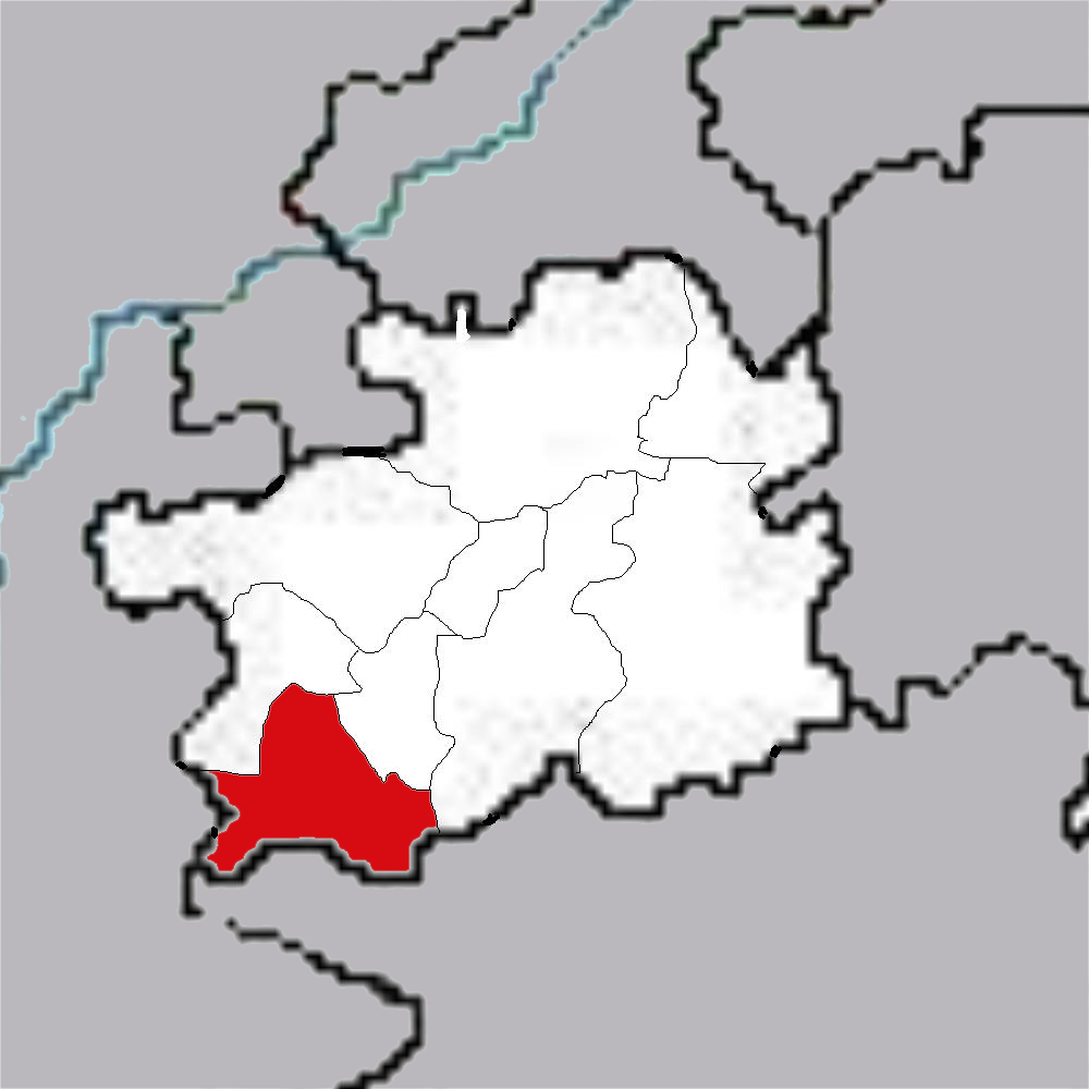 Maps of Guizhou Province of China